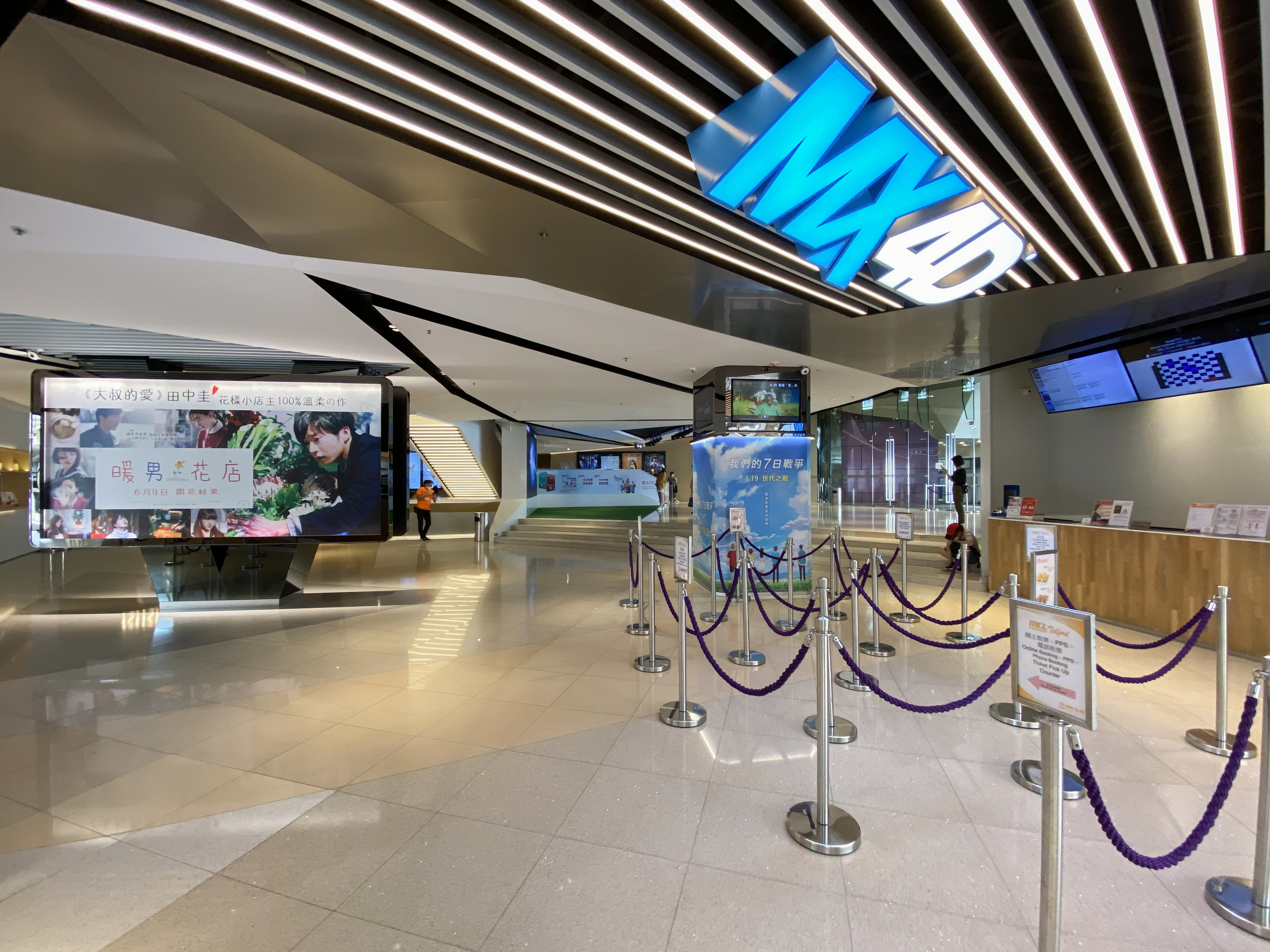 Telford Plaza MCL Telford Lobby